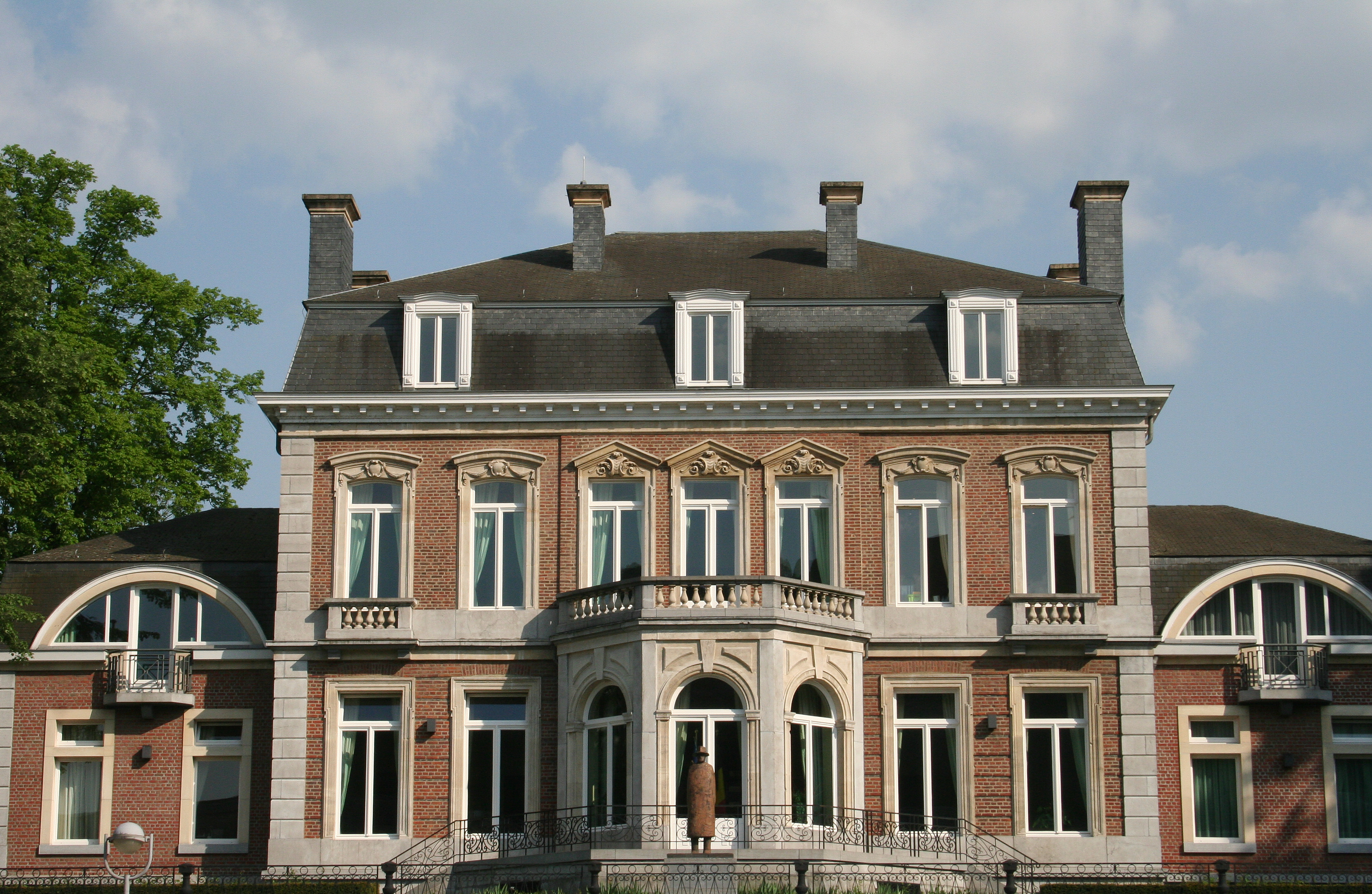 Jambes (Belgium), building of the Walloon Government Presidency (Élysette).